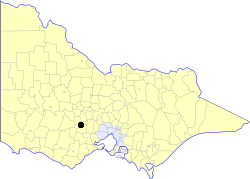 Location of the City of Ballaarat within Victoria.